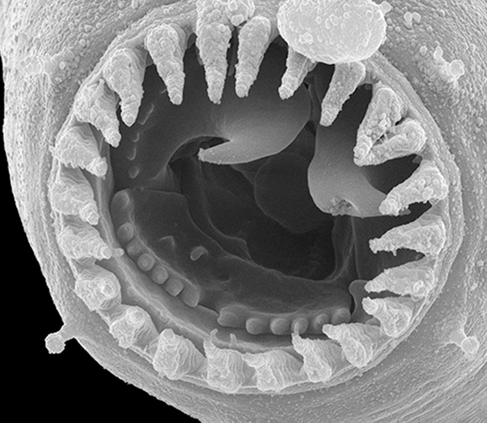 Nematode teeth van Parapristionchus giblindavisi